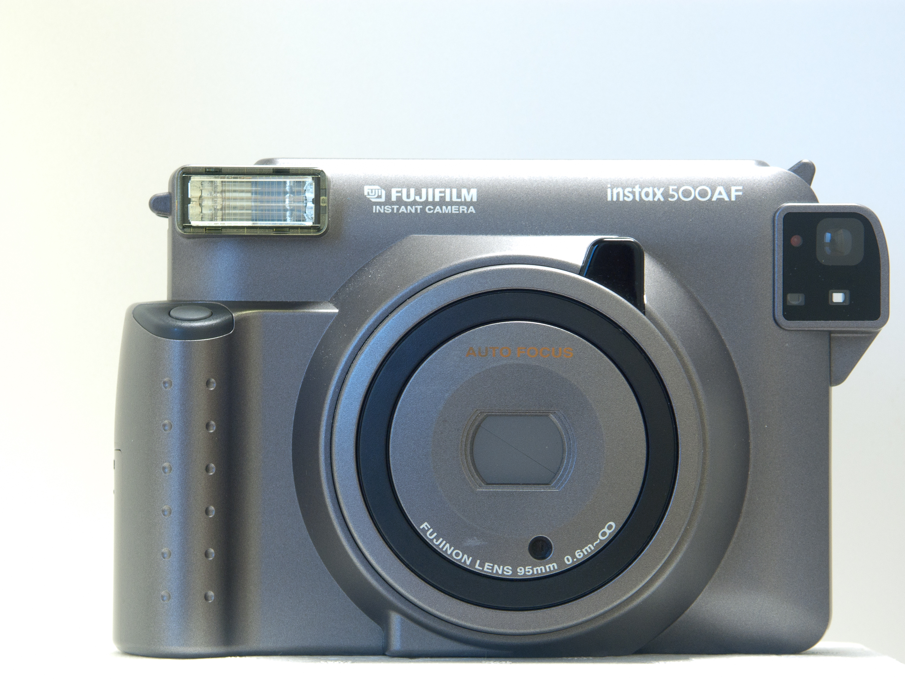 Fujifilm Instax 500AF instant film camera (front view).